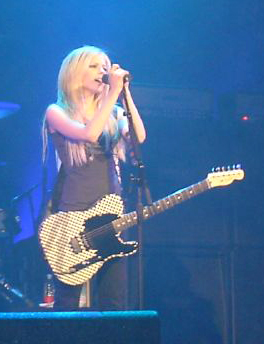 Avril Lavigne having a concert in Strathclyde, Scotland